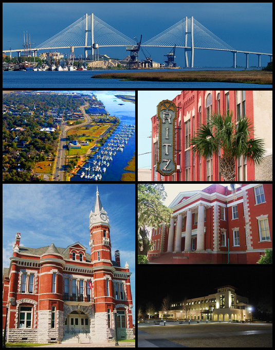 A collection of photos around Brunswick, Georgia.